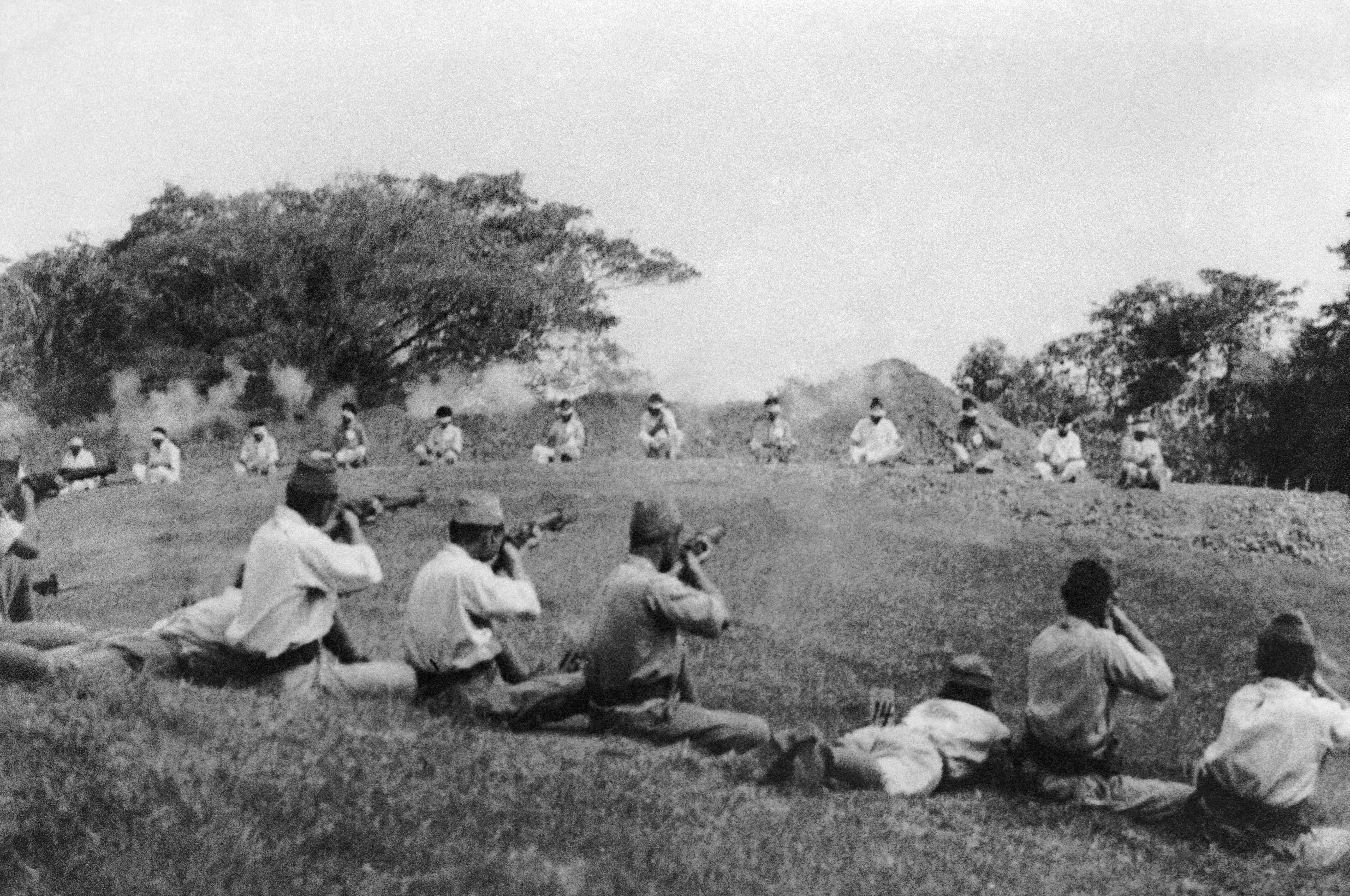 ATROCITIES CARRIED OUT BY JAPANESE FORCES DURING THE SECOND WORLD WAR WAR OFFICE, CENTRAL OFFICE OF INFORMATION AND AMERICAN SECOND WORLD WAR OFFICIAL COLLECTION Japanese soldiers shooting Sikh prisoners who are sitting blindfolded in a rough semi-circle about 20 yards away. Four photographs found among Japanese records when British troops entered Singapore. Picture number 3 (here) shows:- The shots ring out. Some appear to be near misses, and none at this stage appear to be fatal.